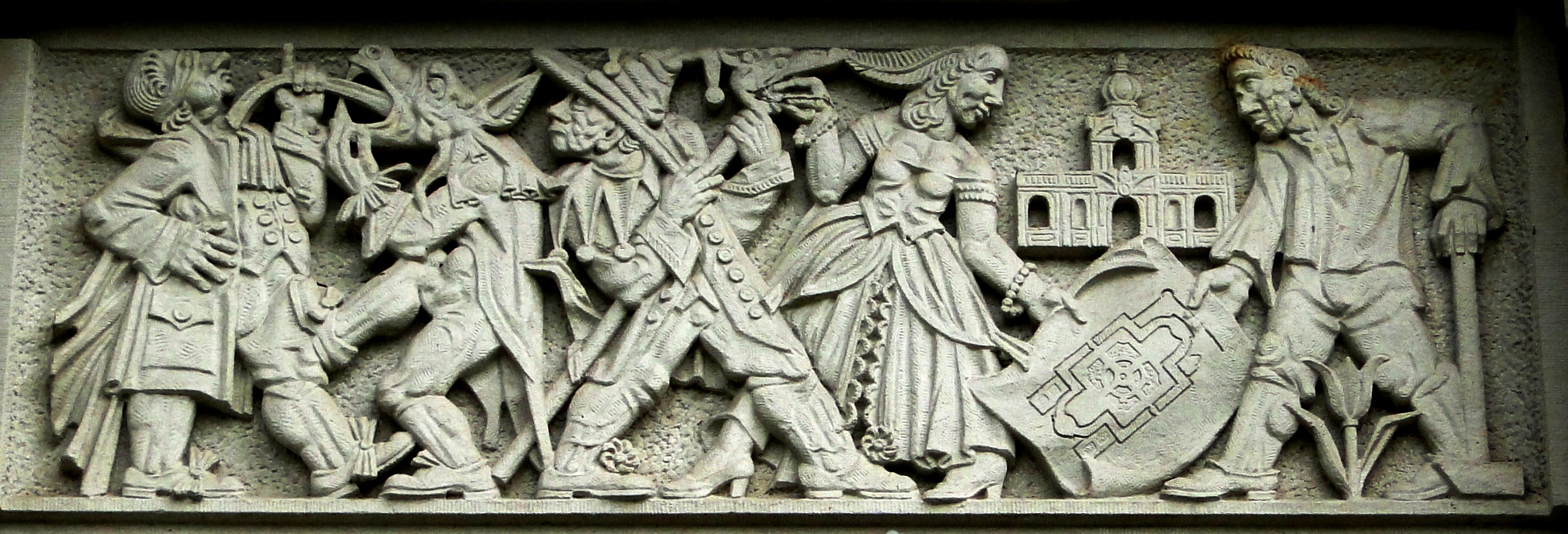 dd